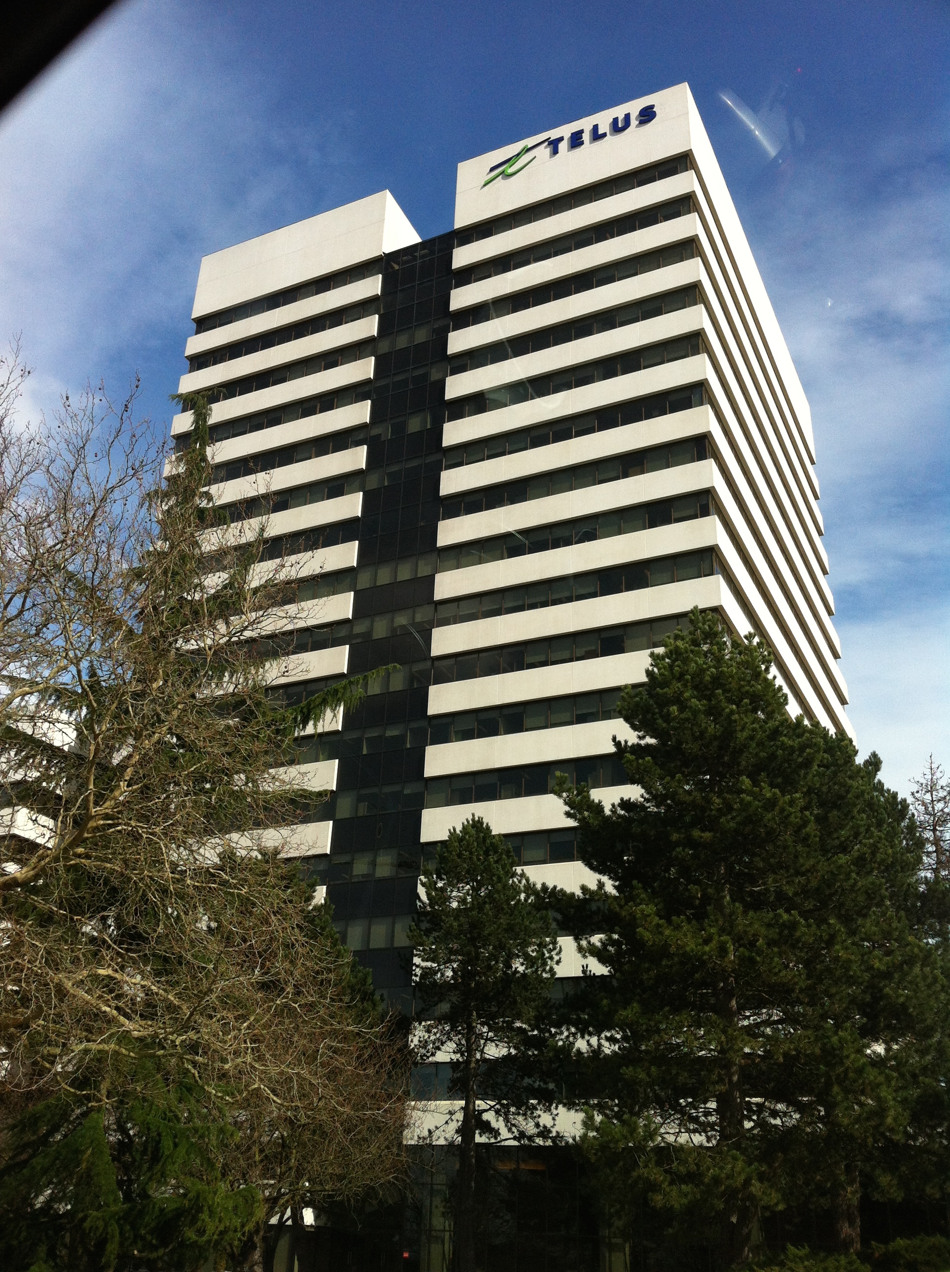 Telus Headquarters Building is in Burnaby, BC, Canada.